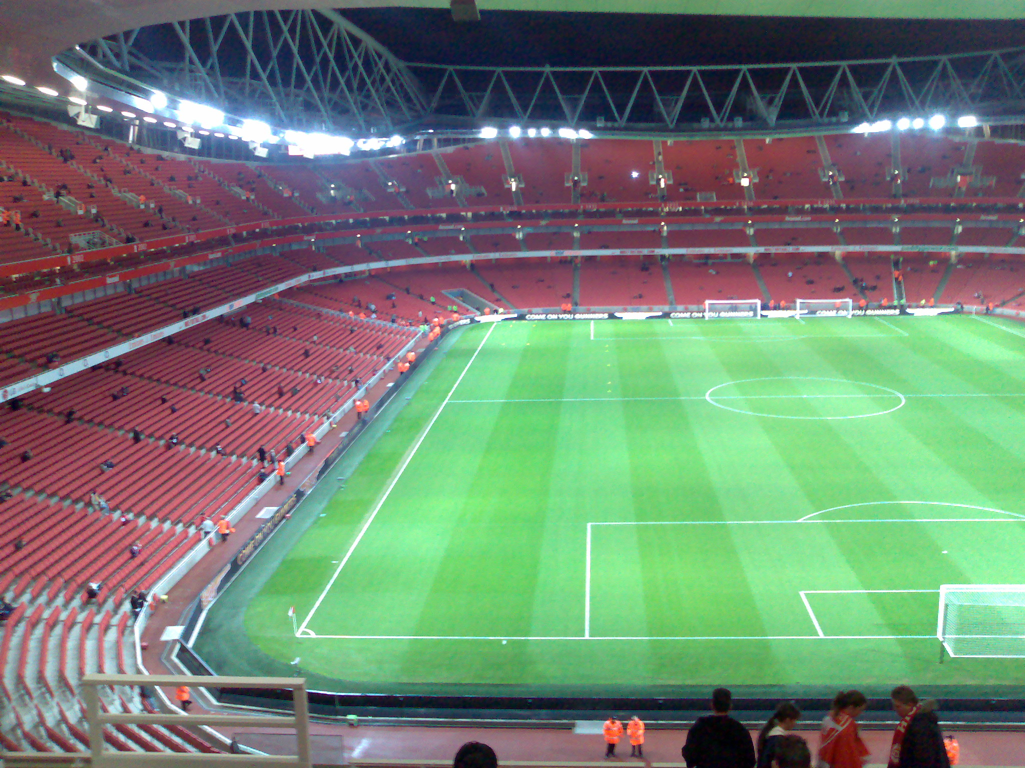 Inside the Emirates Stadium.